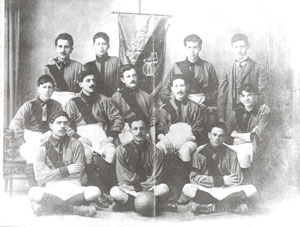 First soccer team of Bagé, called Sport Club Bagé, in 1906.